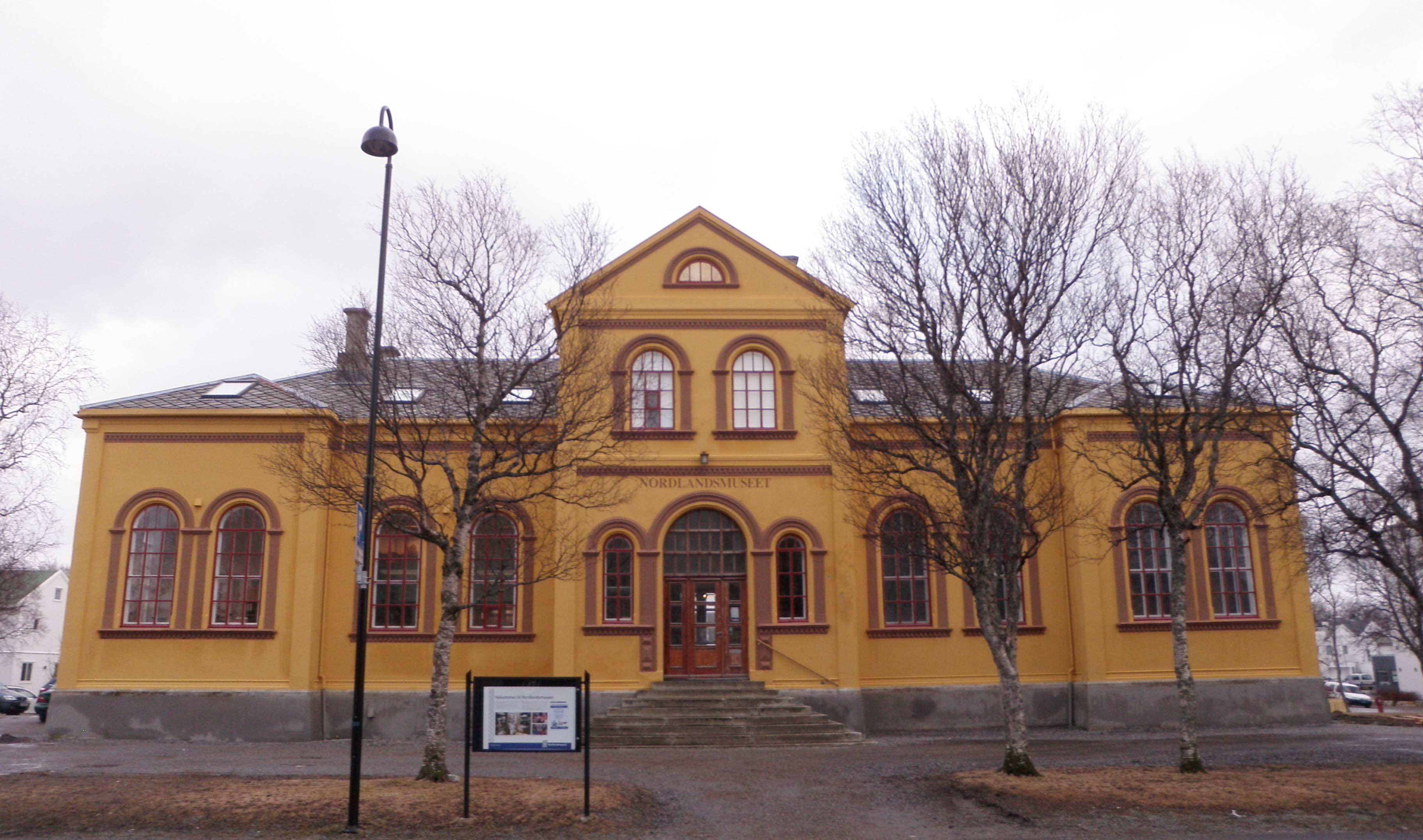 The Nordlandsmuseet in Bodø, Norway.